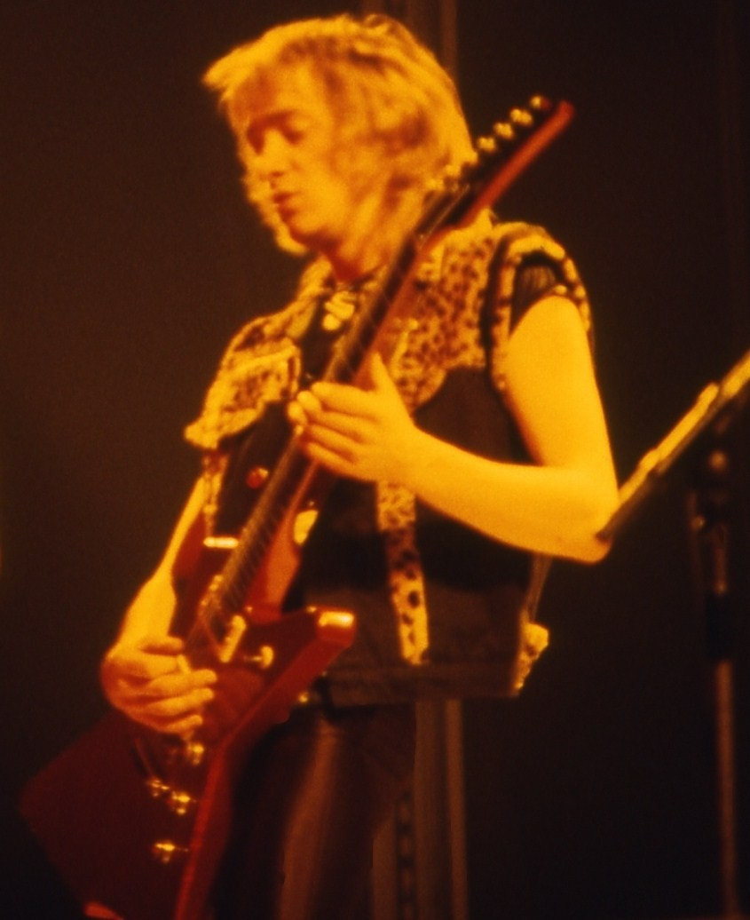 Iron Maiden 1982